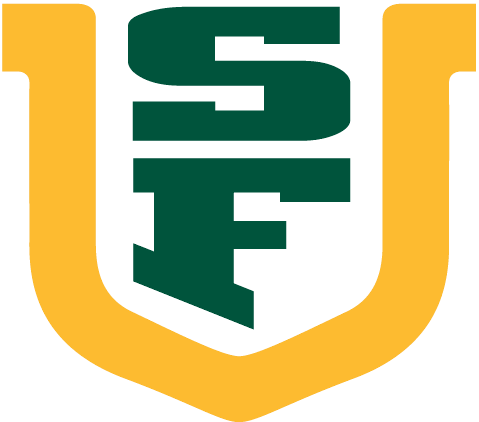 San Francisco Dons logo.